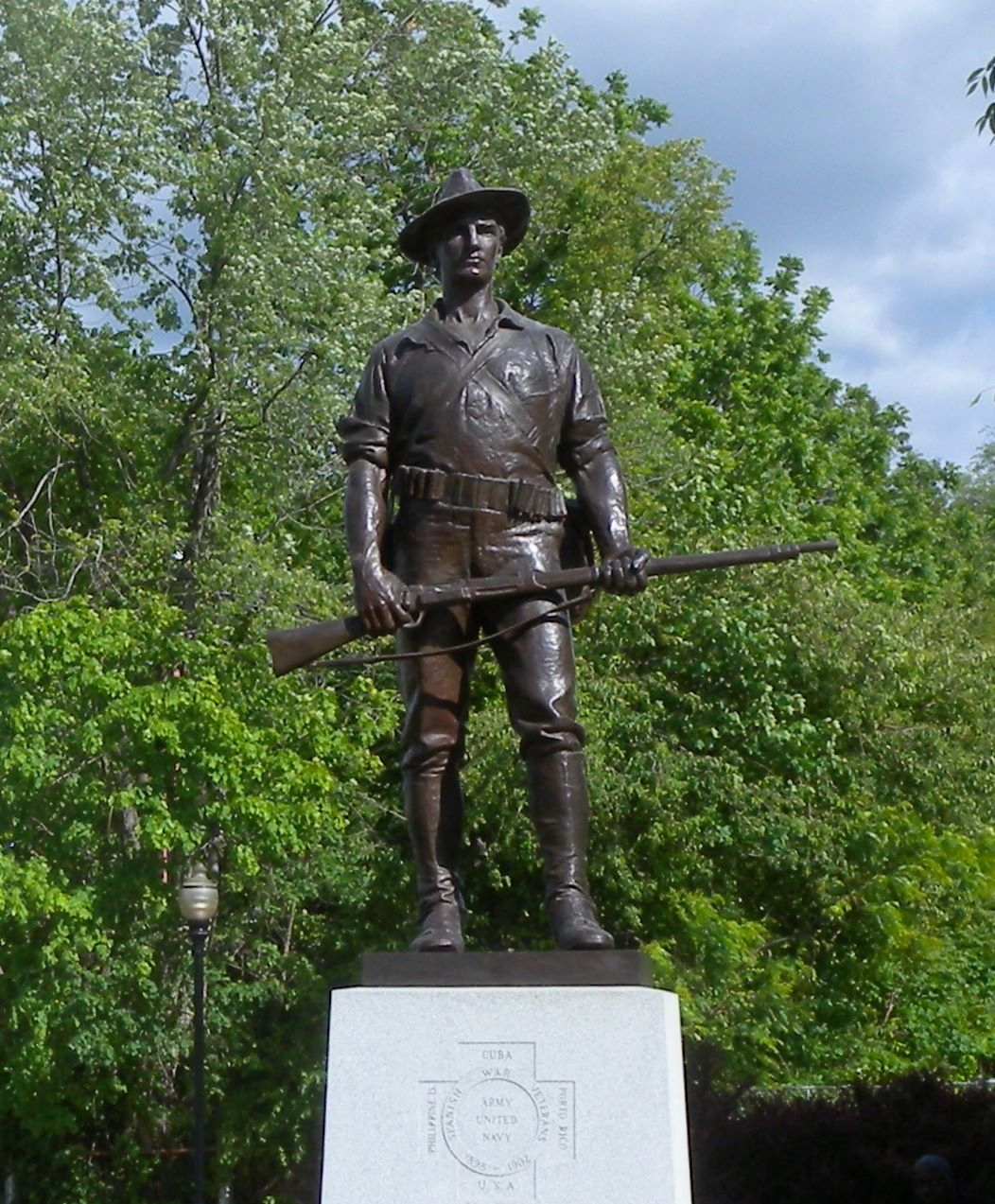 Looking east at military statue in Morristown, New Jersey, on a mostly sunny afternoon. See File:Sp Am War monument base Morristn jeh.jpg for base.